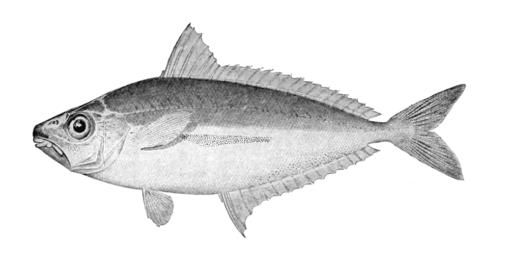 Equulites stercorarius